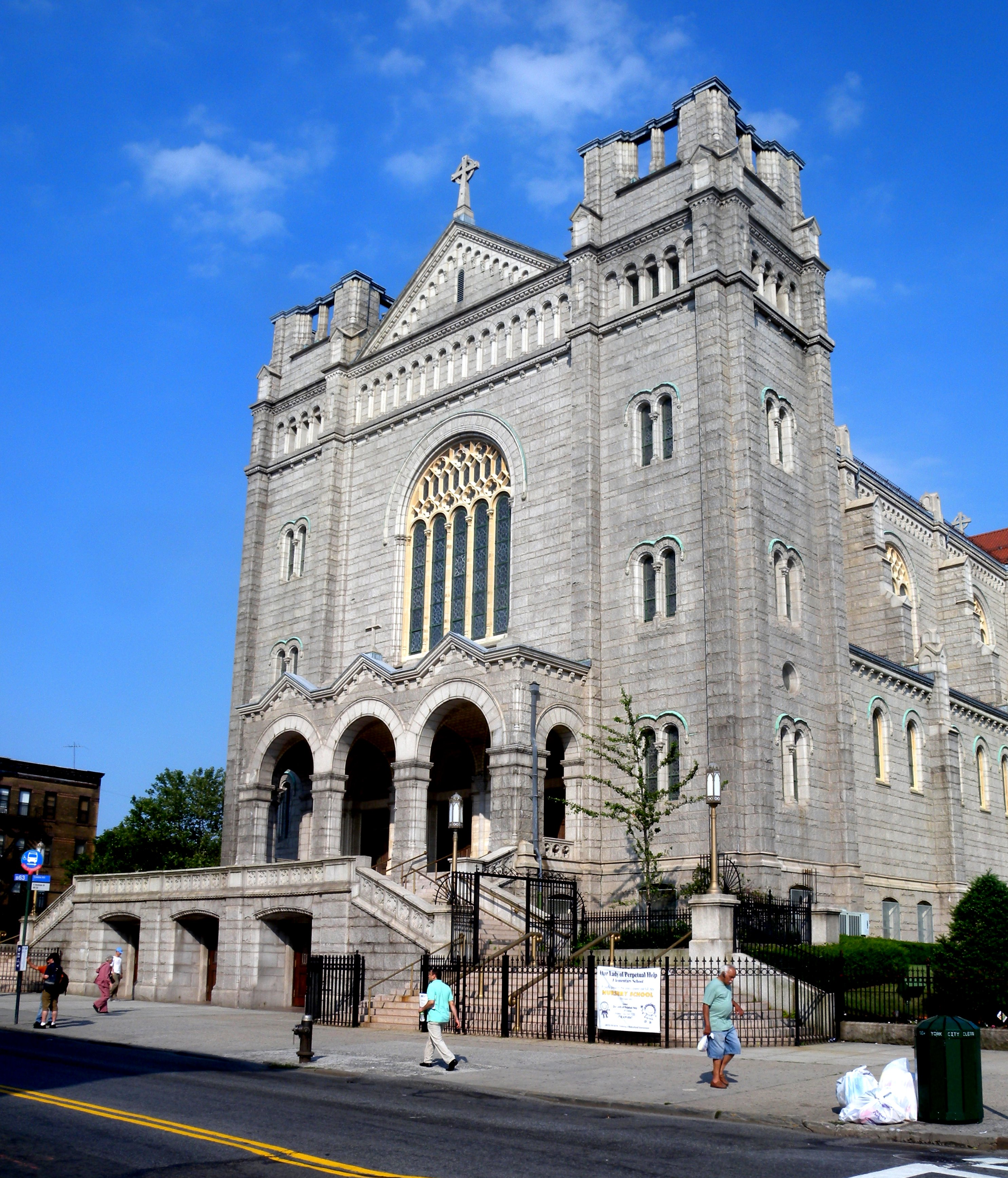 Looking east at OLPH on a sunny afternoon.